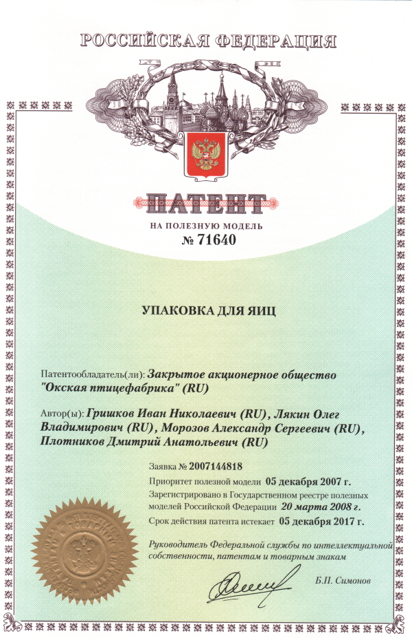 Utility model patent No. 71640 (Russia) - Eggs' packaging